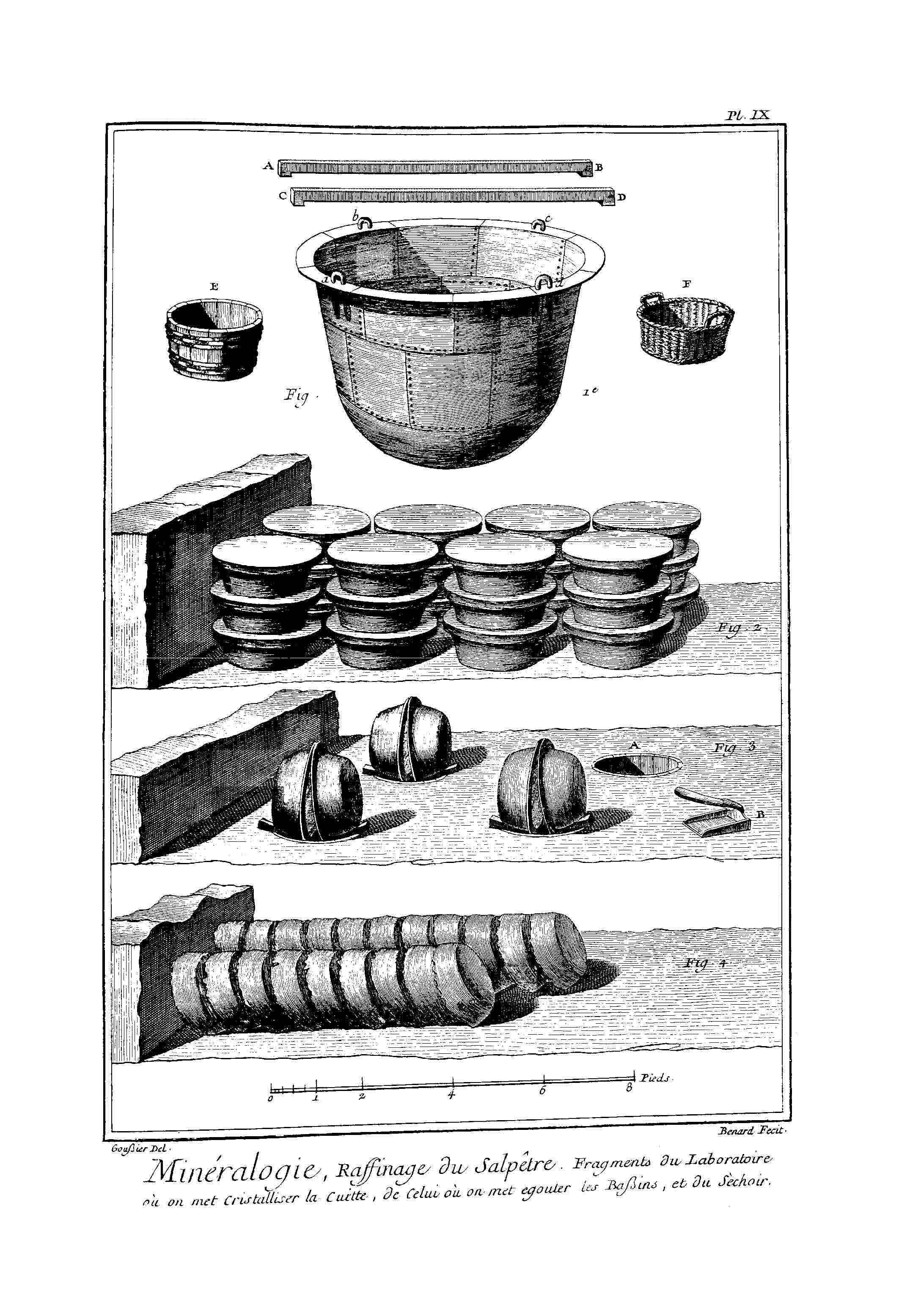 Planches de l'Encyclopédie de Diderot et d'Alembert, volume 5, Histoire Naturelle, Minérologie, Salpêtre, Pl. 9.